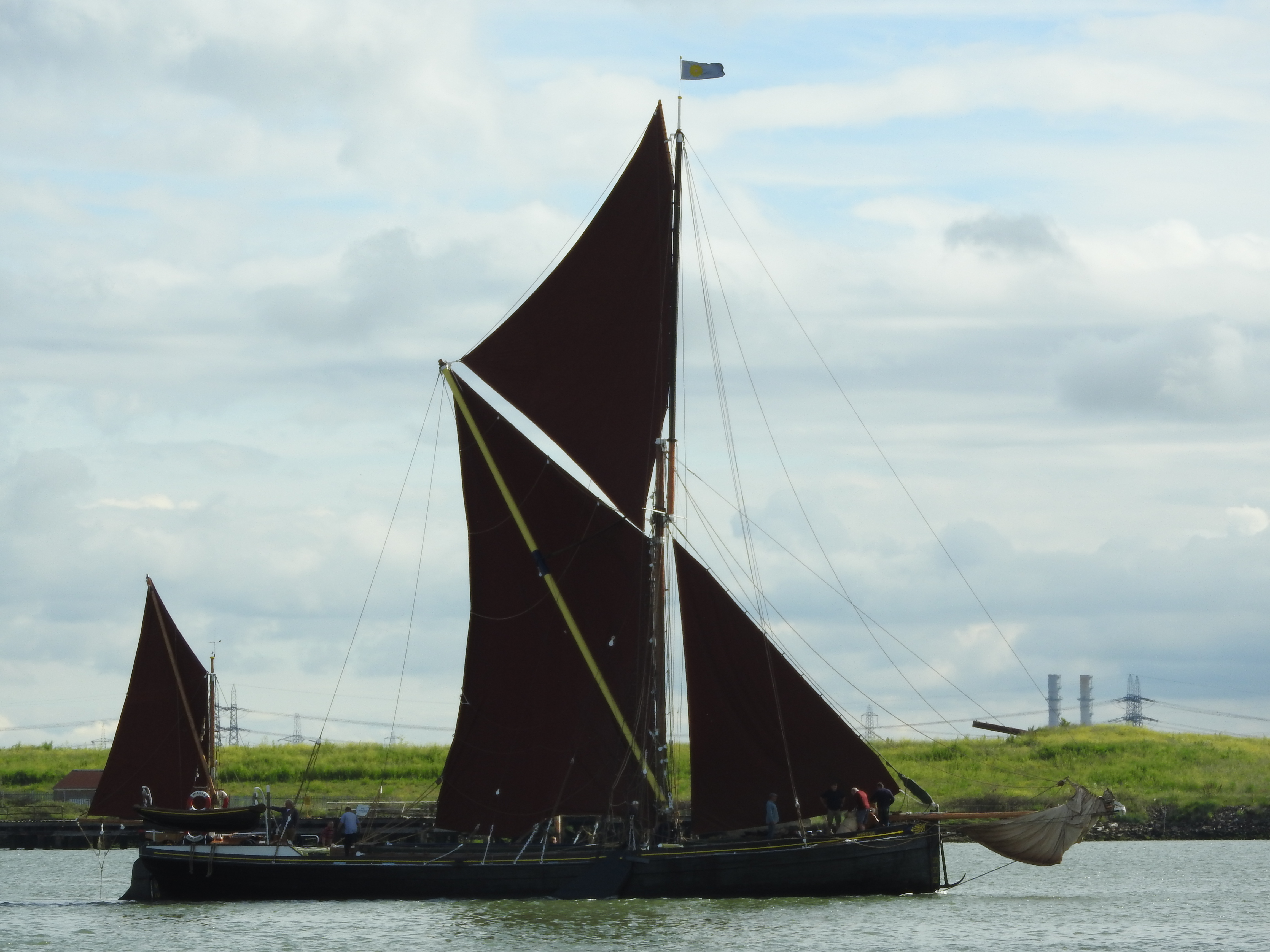 Barges competing in the 109th Medway Barge Sailing match, viewed from the shore at Gillingham Pier.